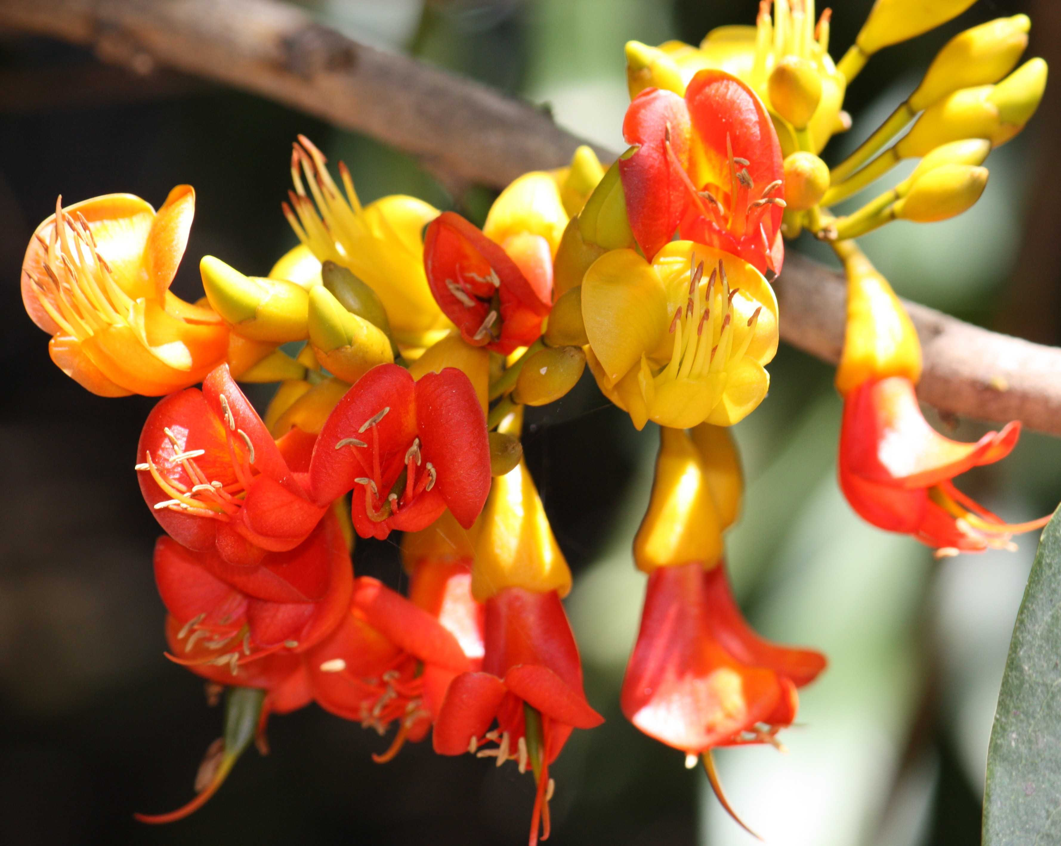 Castanospermum australe Australian rainforest tree, also called Moreton Bay chestnut. This one was growing at the Woodford Folk Festival site, where over 70,000 Australian native trees have been planted & cared for over the last 10 or so years.